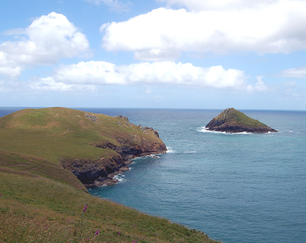 The Rumps promontory, Cornwall, and The Mouls island